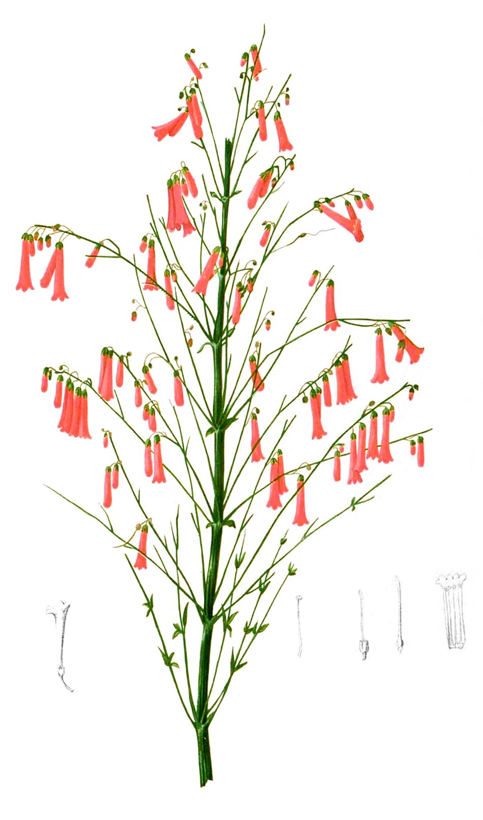 Plate from book